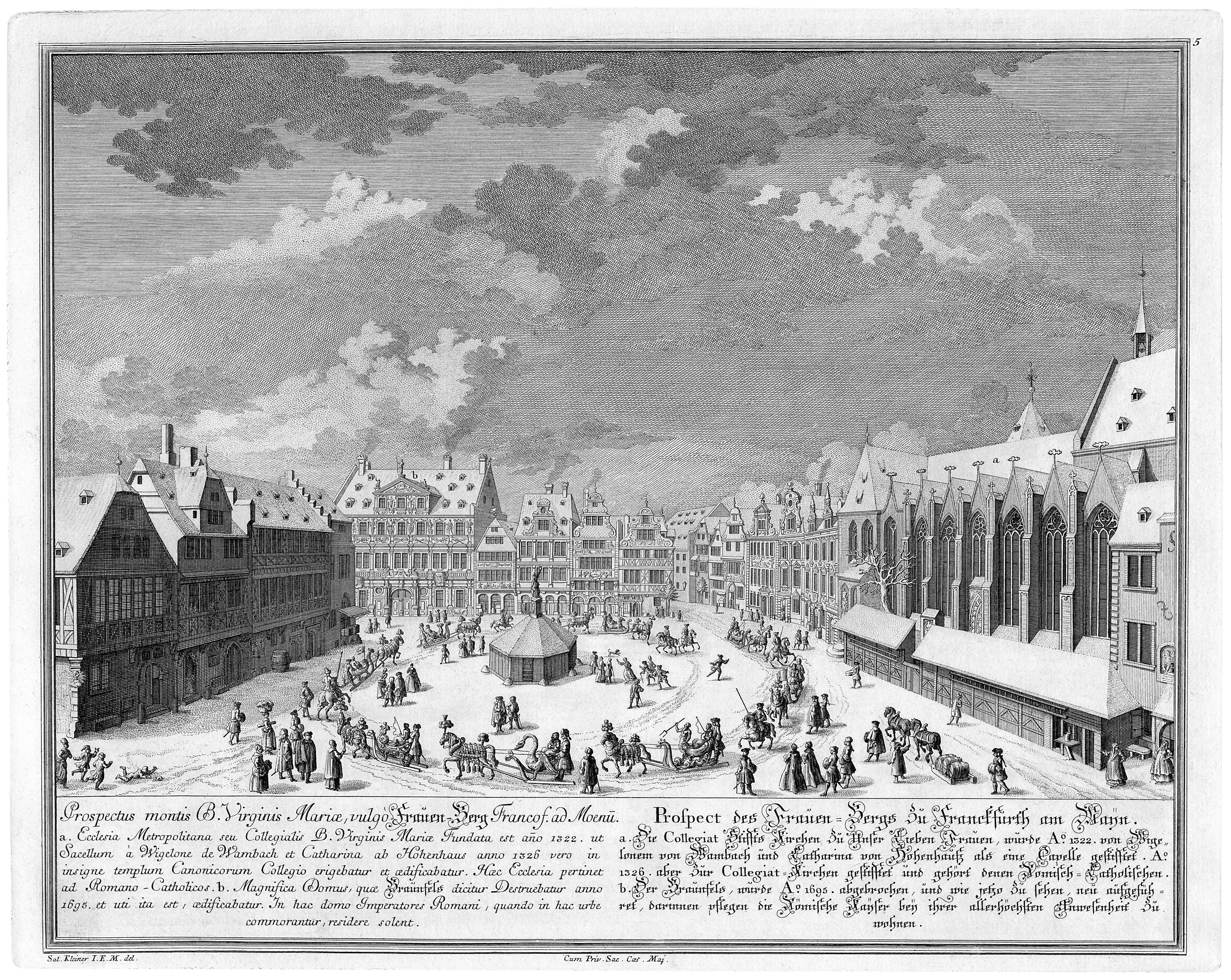 Frankfurt on the Main: Prospect of the Frauen-Berg (Square of Our Lady) in Frankfurt on the Main.